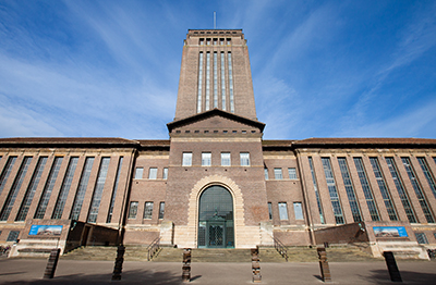 Exterior shot of main UL building